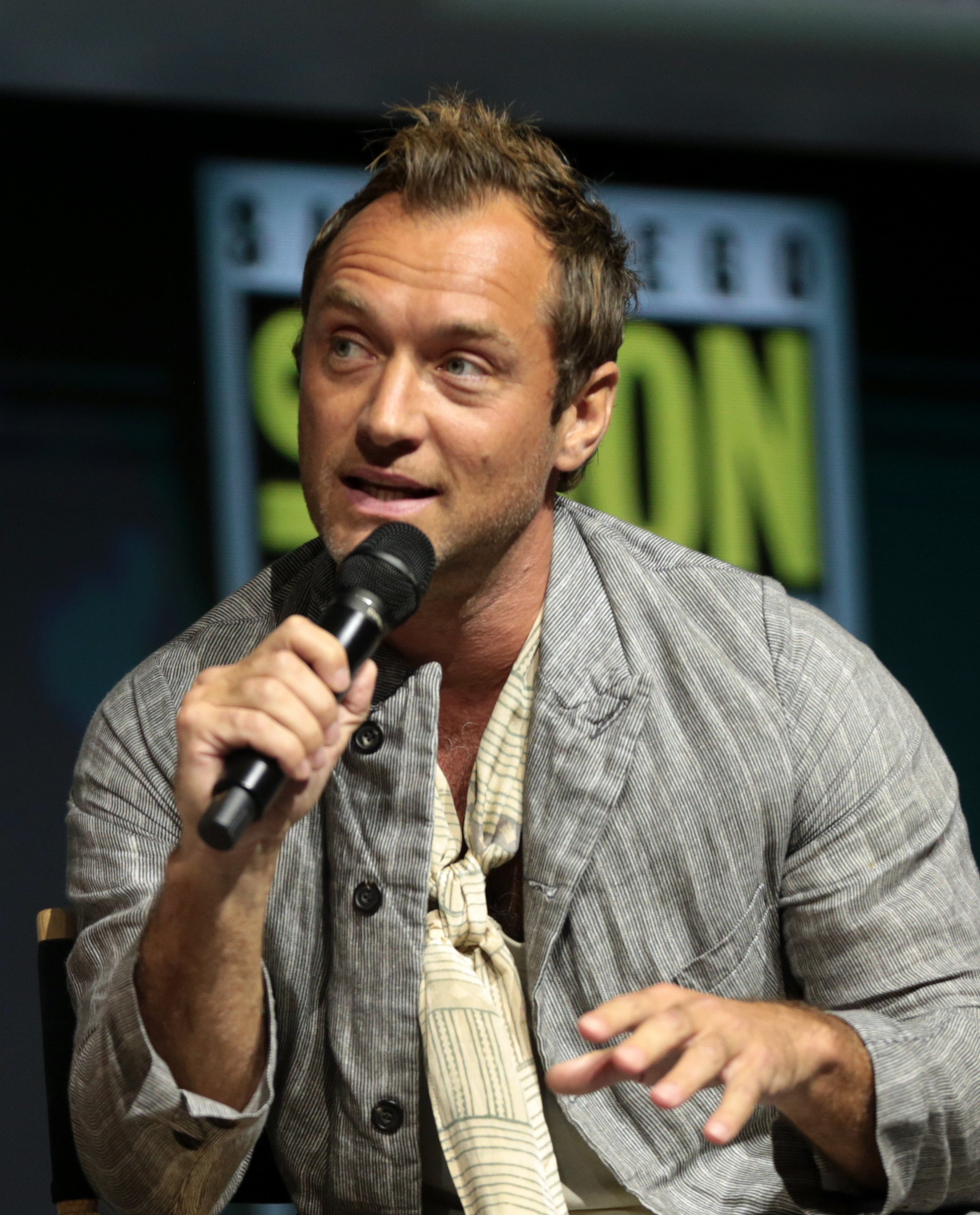 Jude Law speaking at the 2018 San Diego Comic Con International, for "Fantastic Beasts: The Crimes of Grindelwald", at the San Diego Convention Center in San Diego, California.